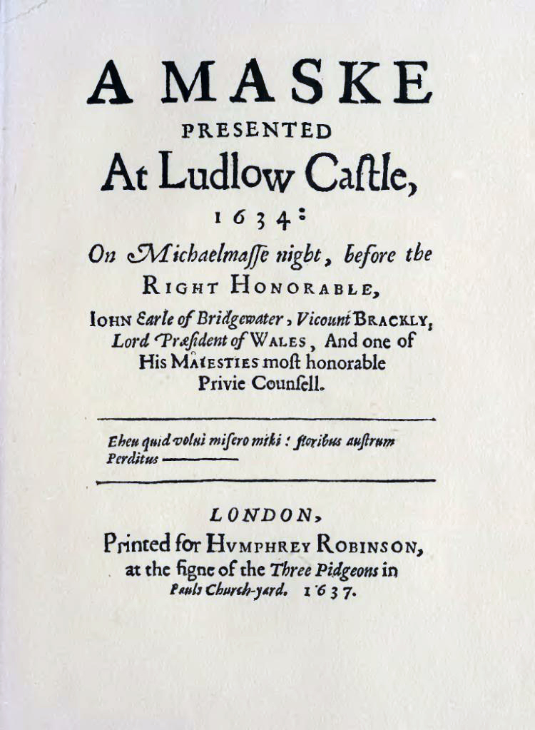 Title page to "A Maske", 1637, cleaned up and balanced from the original Wikisource scan